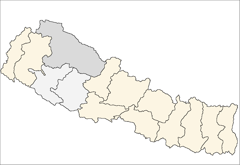 FrenchCarte de localisation de lazone de Karnali(wp-FR),au Népal (wp-FR).EnglishLocation map ofKarnali Zone(wp-EN),in Nepal (wp-EN).